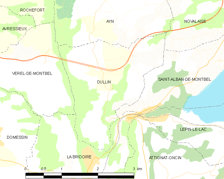 Map of French municipality